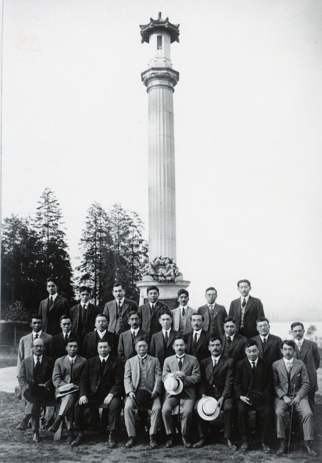 Founding members of the Canadian Japanese Association at the Japanese Canadian War Memorial in Vancouver, commemorating Japanese-Canadian World War I veterans.